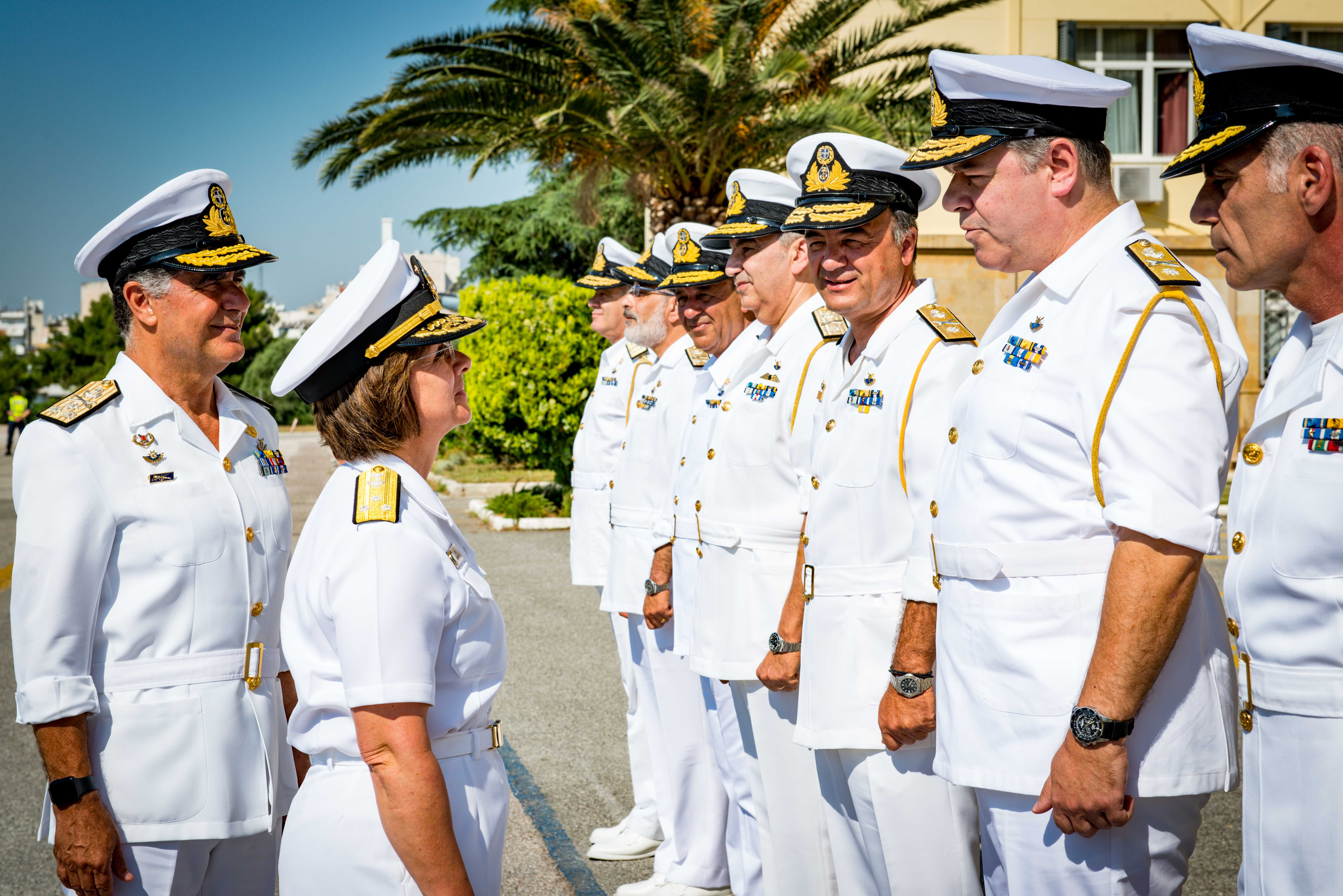 190620-N-WO404-067 ATHENS, Greece (June 20, 2019) Vice Adm. Lisa Franchetti, commander, U.S. 6th Fleet and commander, Naval Striking and Support Forces NATO, and Greek Vice Adm. Nikolaos Tsounis, head of the Hellenic Navy, speak with Hellenic Navy General staff during an arriving honors ceremony at the Greek Ministry of Defense in Athens, Greece, June 20, 2019. U.S. 6th Fleet, headquartered in Naples, Italy, conducts the full spectrum of joint and naval operations, often in concert with allied and interagency partners, in order to advance U.S. national interests and security and stability in Europe and Africa. (U.S. Navy photo by Mass Communication Specialist 2nd Class Jonathan Nelson/Released)